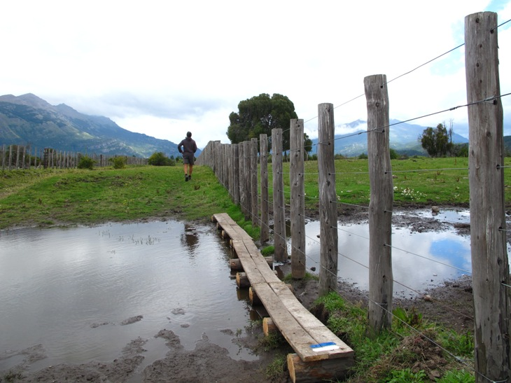 Huella Andina trail: this mark is placed in the stage between Aiken Leufu and Ruca Nehuen (Trevelin-Chubut-Argentina). The photo was taken in February 2012 when the stage was being marked for first time.